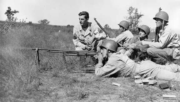 US Army soldiers train with a BAR